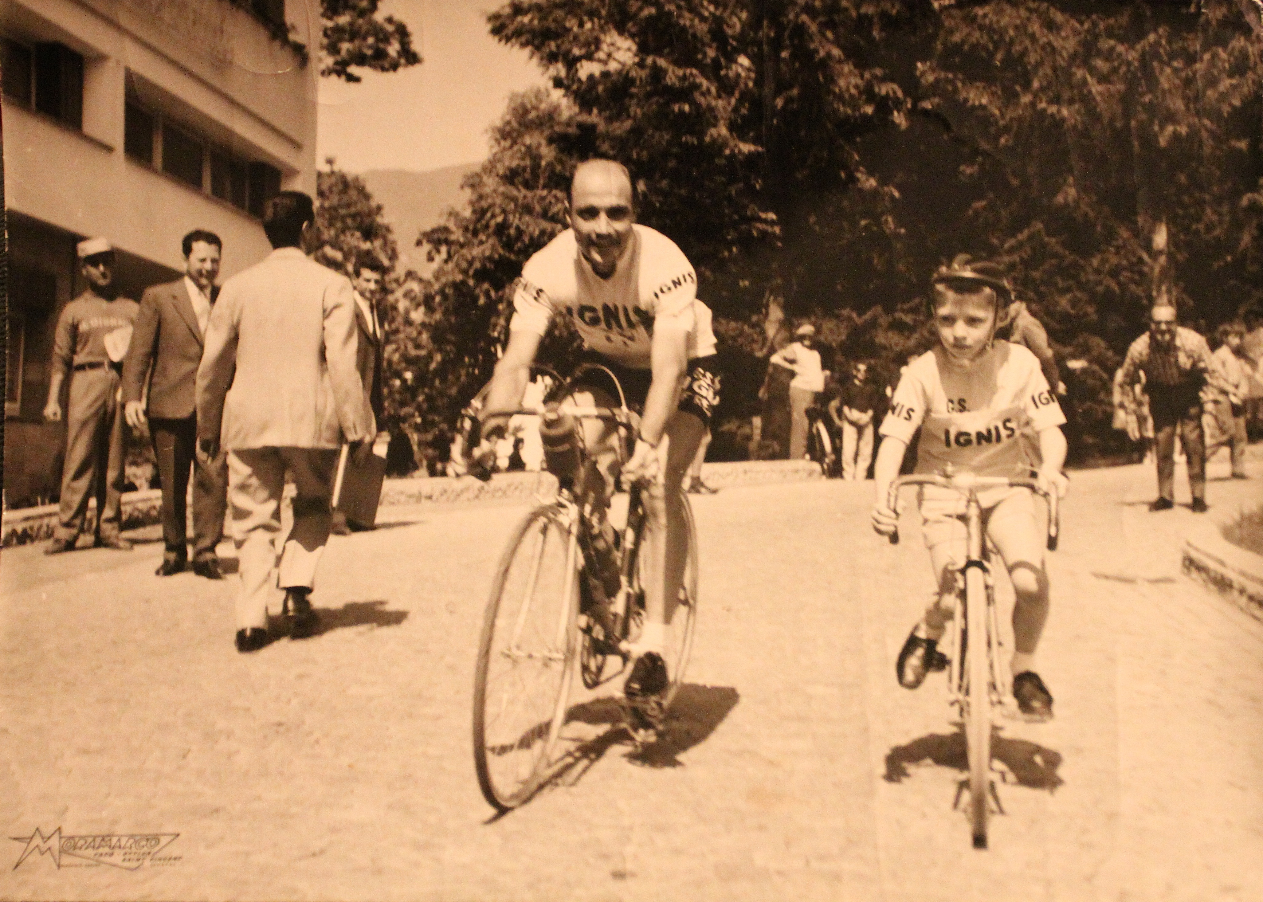 Miguel Poblet (ESP) at Giro d'Italia 1960 in Saint Vincent (Italy)